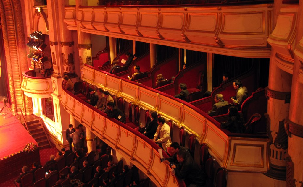 Interior of Hanoi Opera House